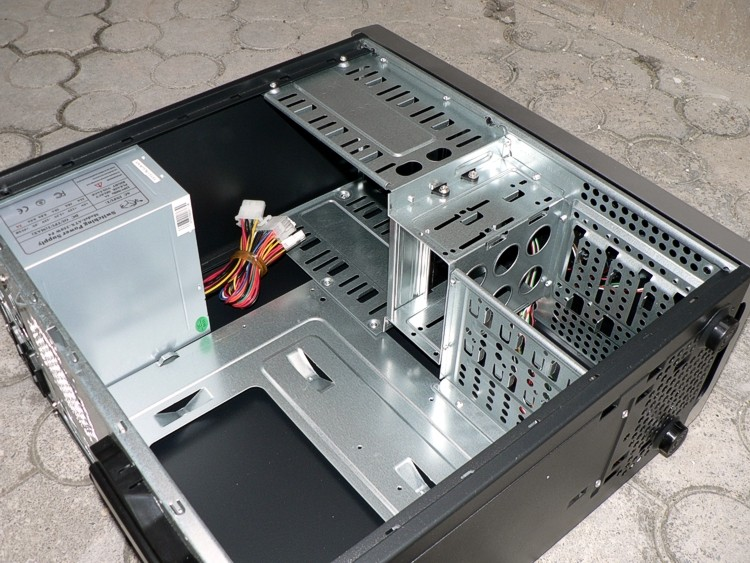 computer hardvare case bays